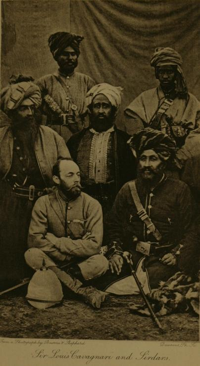 Pierre Louis Napoleon Cavagnari with Nasher Khan and sardars.